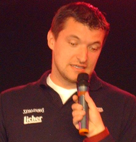 Robert Maras, Gießen, Germany check usage